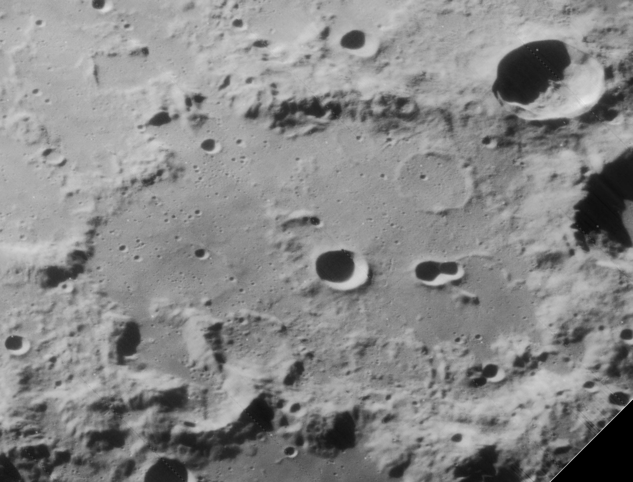 Oblique view of De La Rue crater, facing northwest, on the moon.